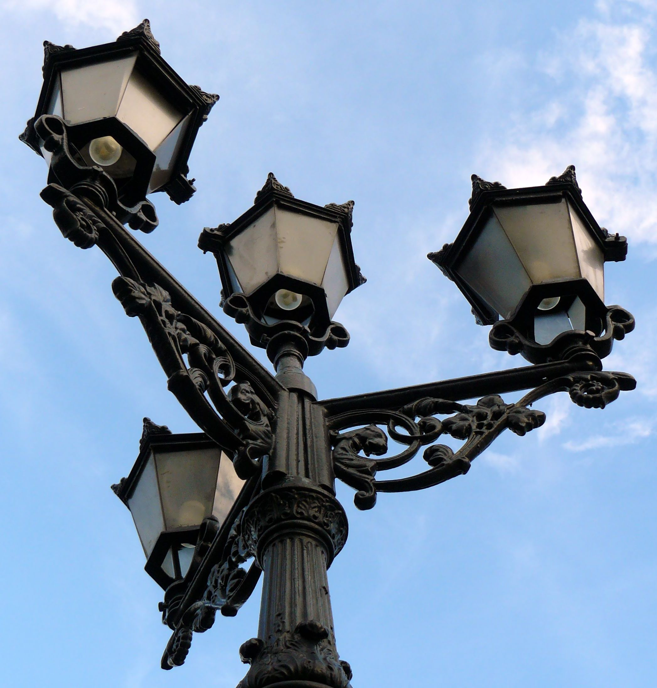 Elgin Bridge, Singapore